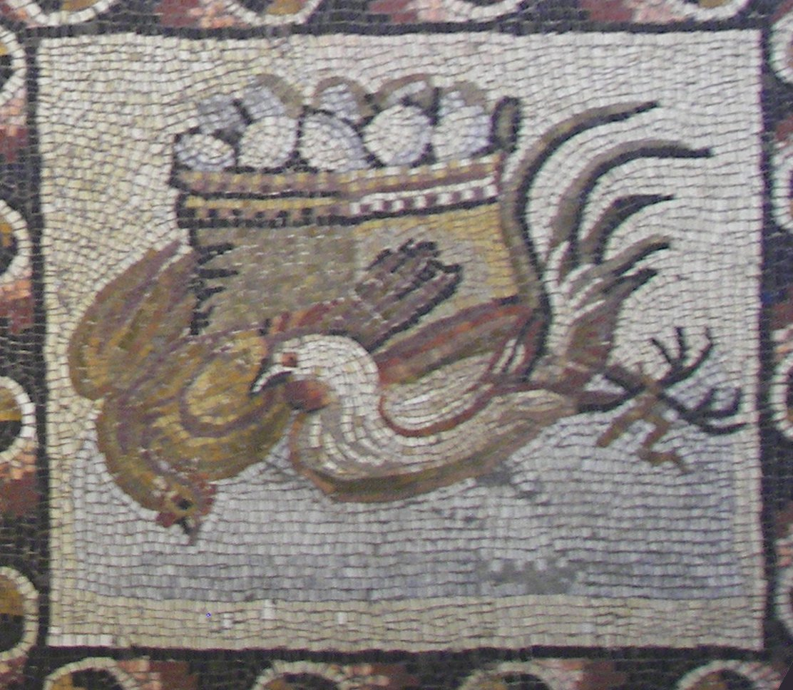 Chickens in a mosaic in the Vatican Museums.